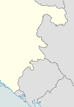 Shows the eastern portion of the Independent State of Croatia with borders 1943-1945